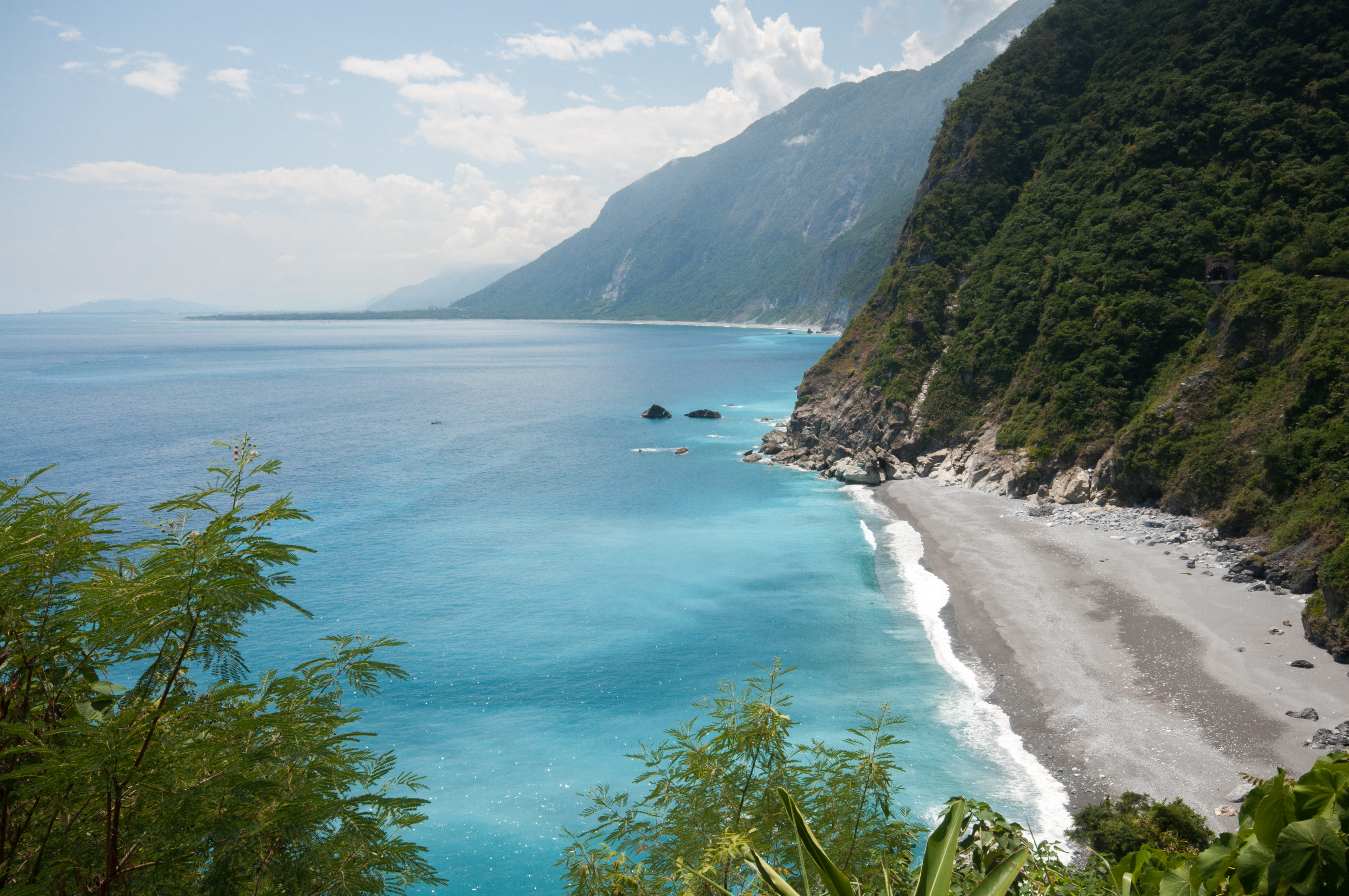 This is an iconic spot to visit near Hualien, Taiwan. The views lend a glance at pristine beaches and untarnished coastlines.